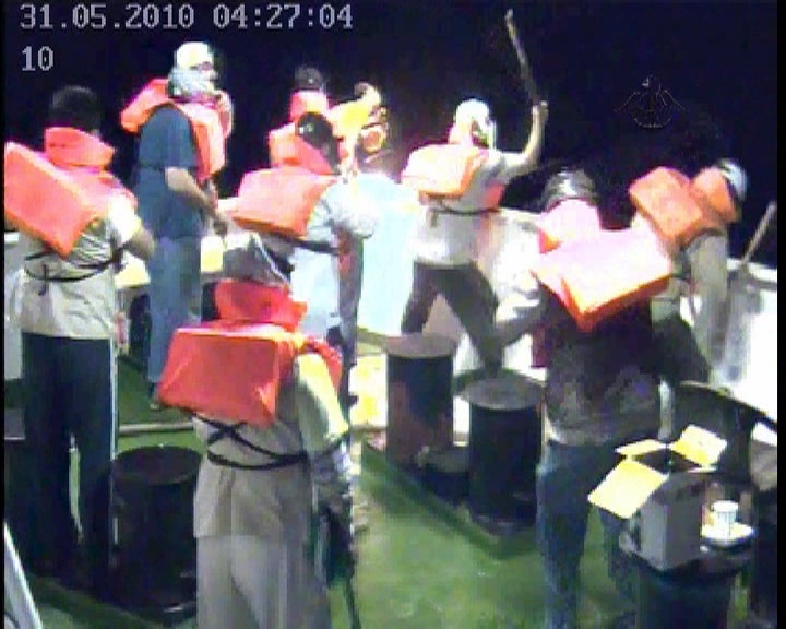 Footage taken from the Mavi Marmara security cameras shows the activists preparing to attack IDF soldiers. To view the entire footage: wp.me/ppbEs-s5